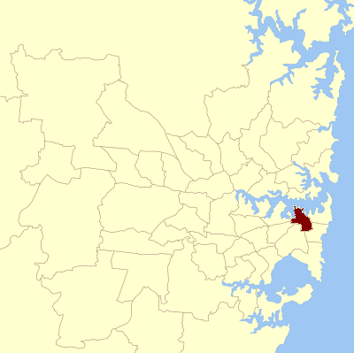 Location of the New South Wales Legislative Assembly electoral district within Sydney in New South Wales. Reference: [1]